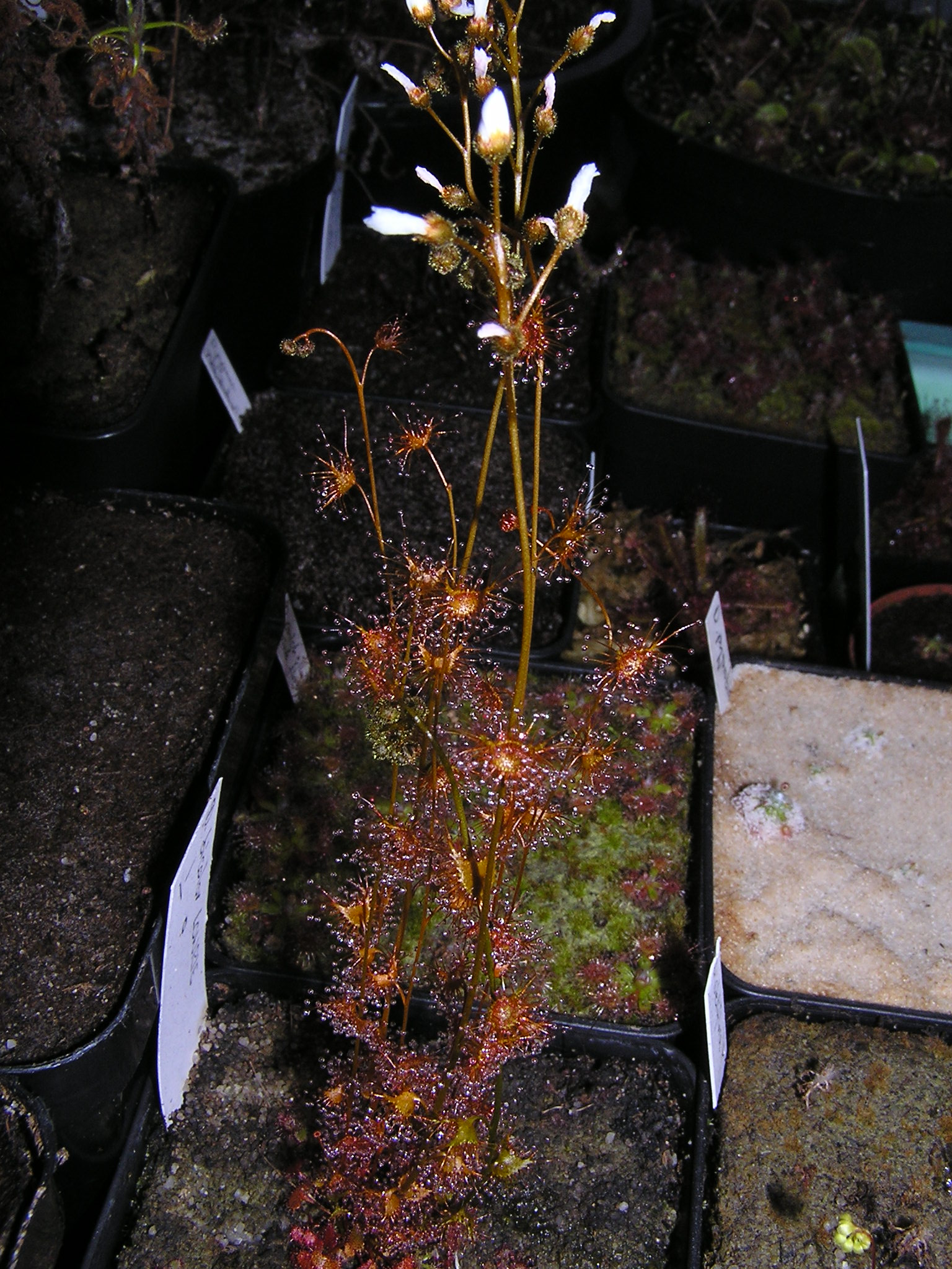 Drosera bicolor